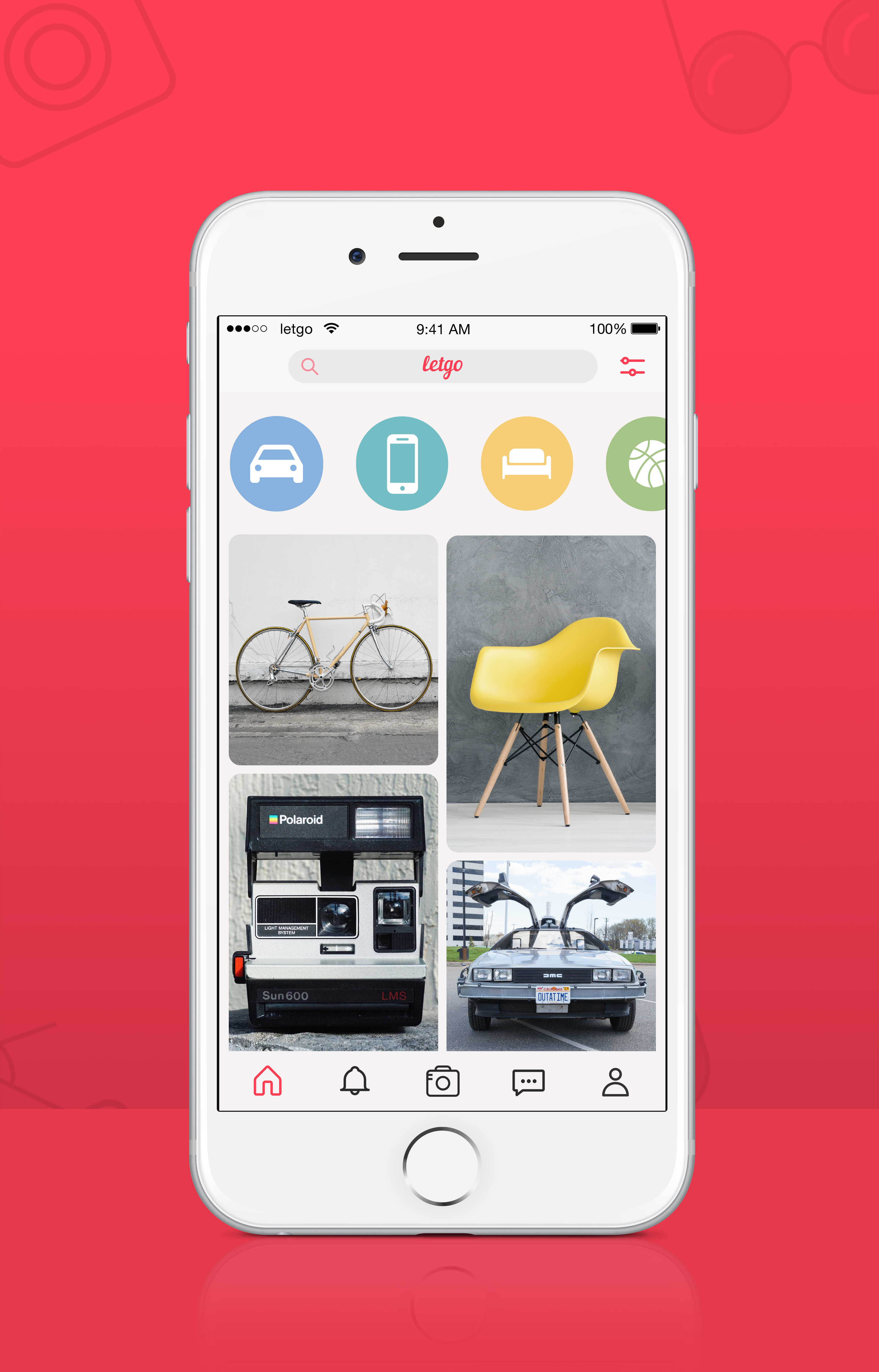 letgo feed